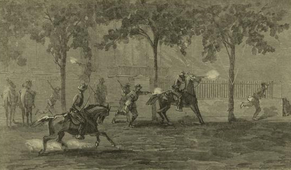 Forrest's raid into Memphis: escape of General Washburne. (1864) From Harper's weekly: a journal of civilization.